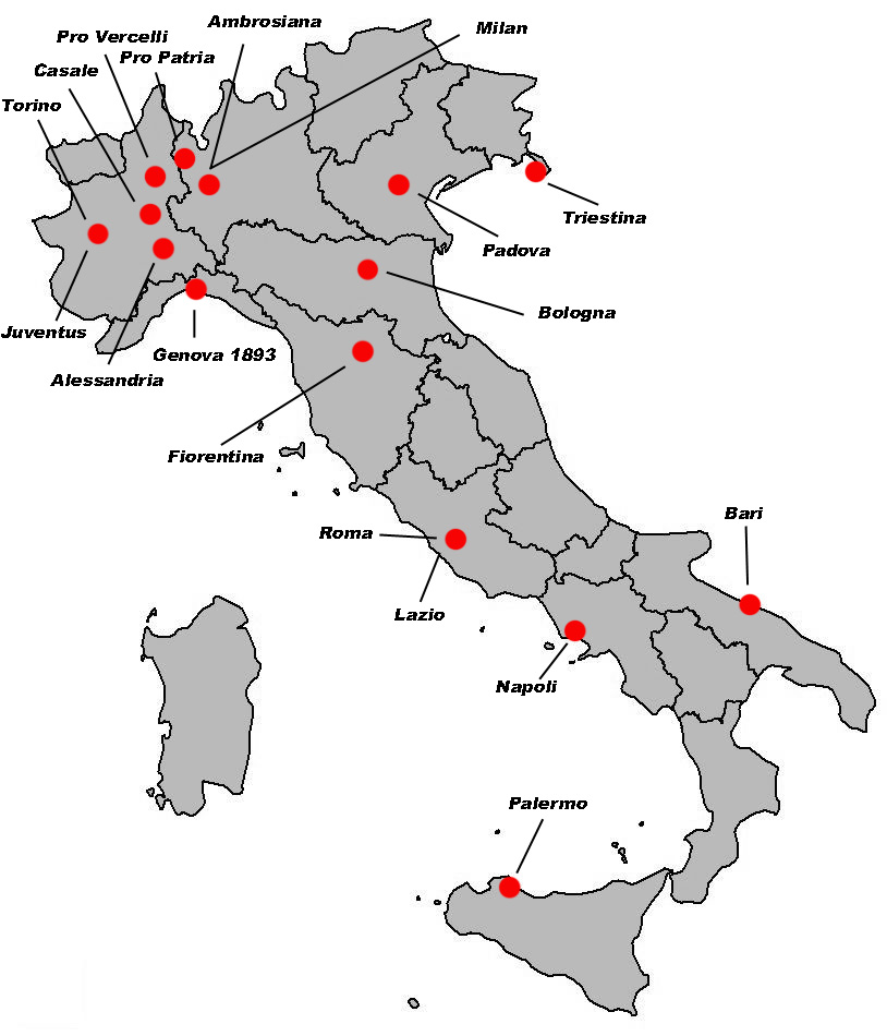 Serie A 1932-33 team locations